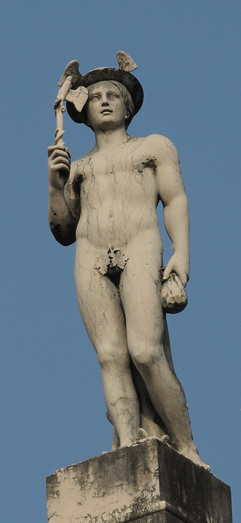 Hermes statue in Braga, Portugal